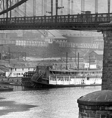 Dick Fulton stern-wheel steamer under the Point Bridge (Pittsburgh) 1900